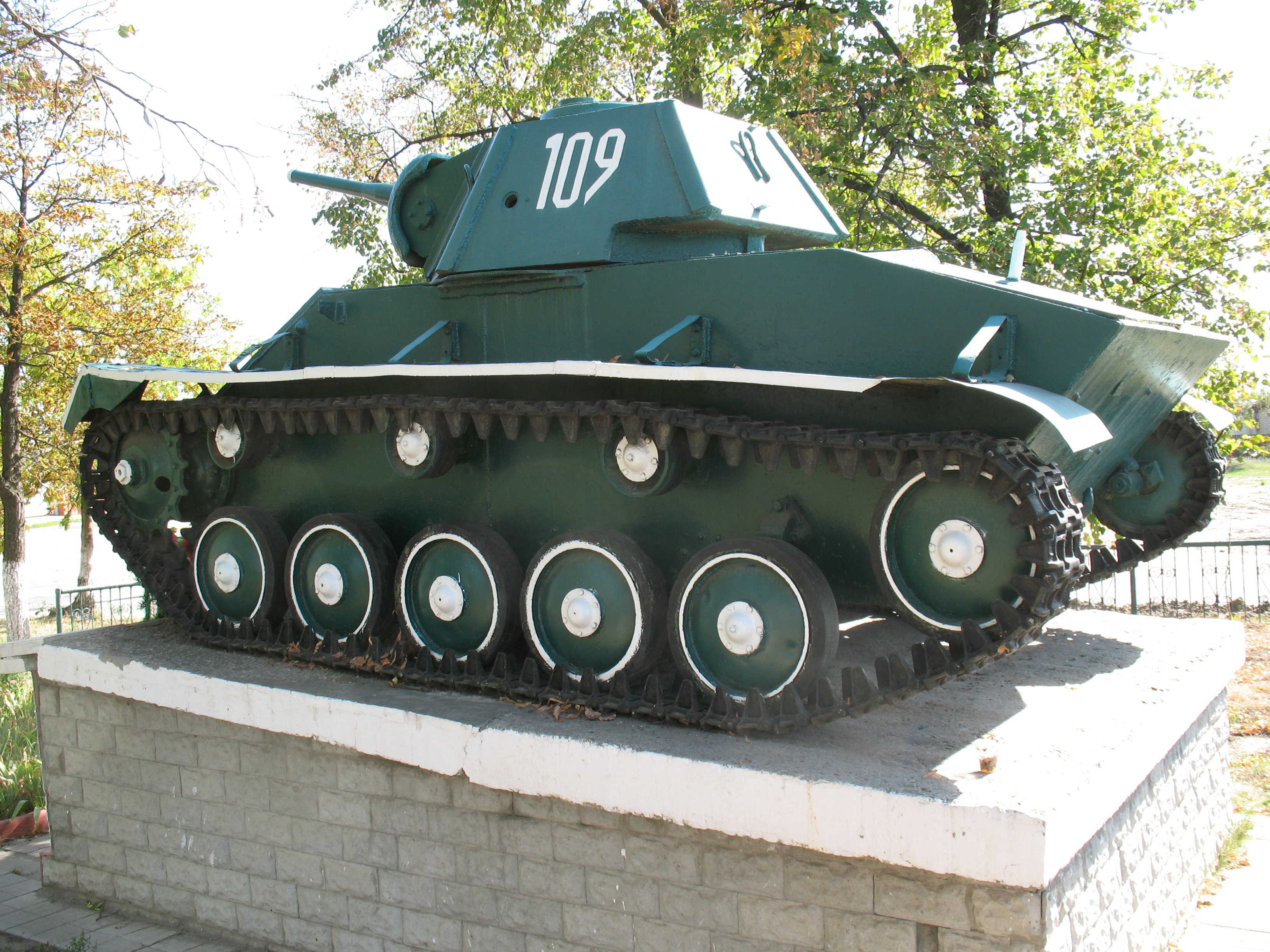 T-70M Soviet WWII tank. Monument in Solonitsevka.